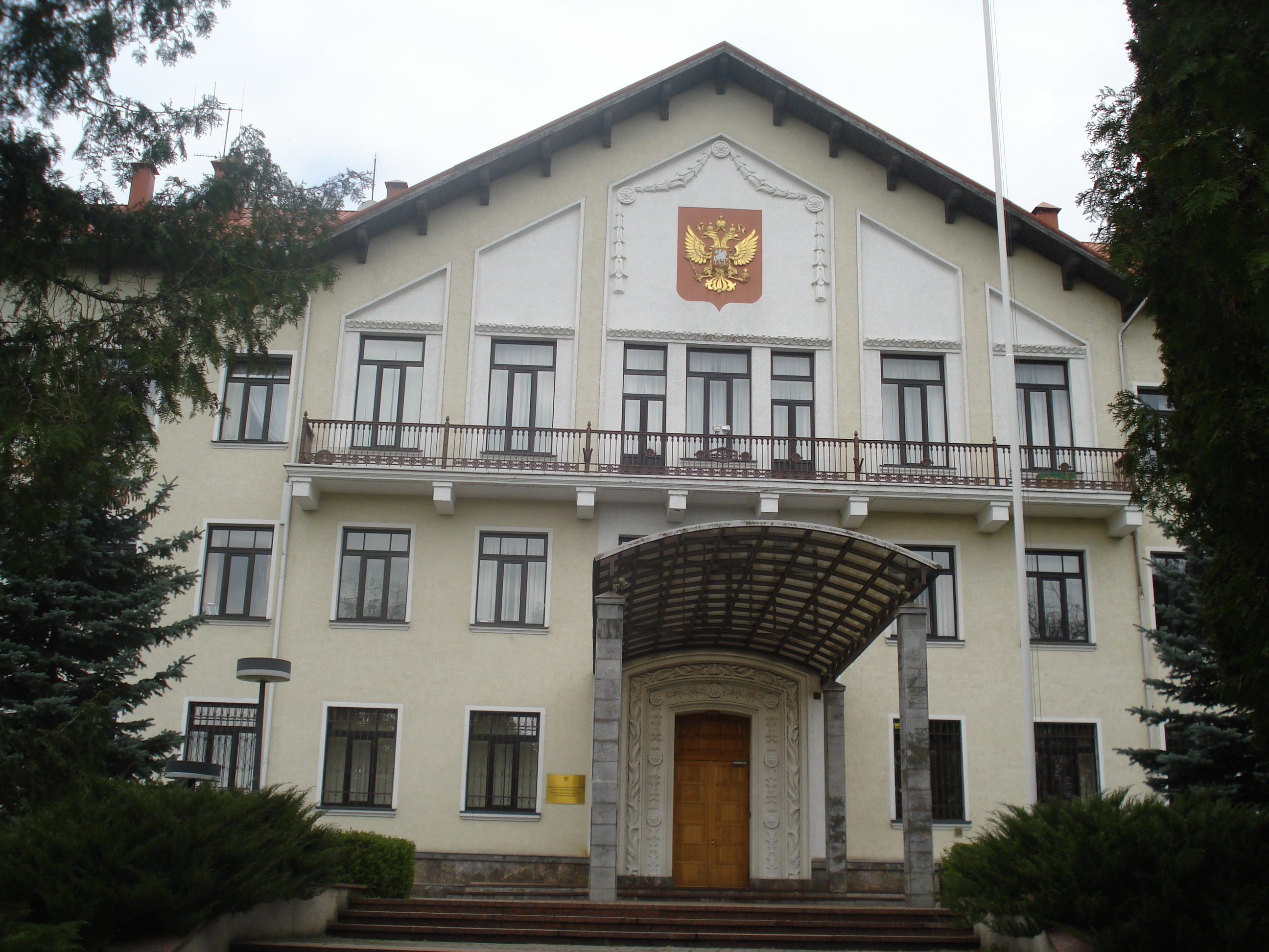 Посольство Российской Федерации в Литовской Республике. Ул. Латвю 53/54 Rusijos Federacijos Ambasada Lietuvos Respublikoje. Latvių g. 53/54 Embassy of the Russian Federation in the Republic of Lithuania